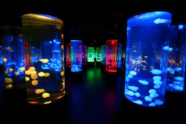 Marine World - Sea Jelly Spectacular